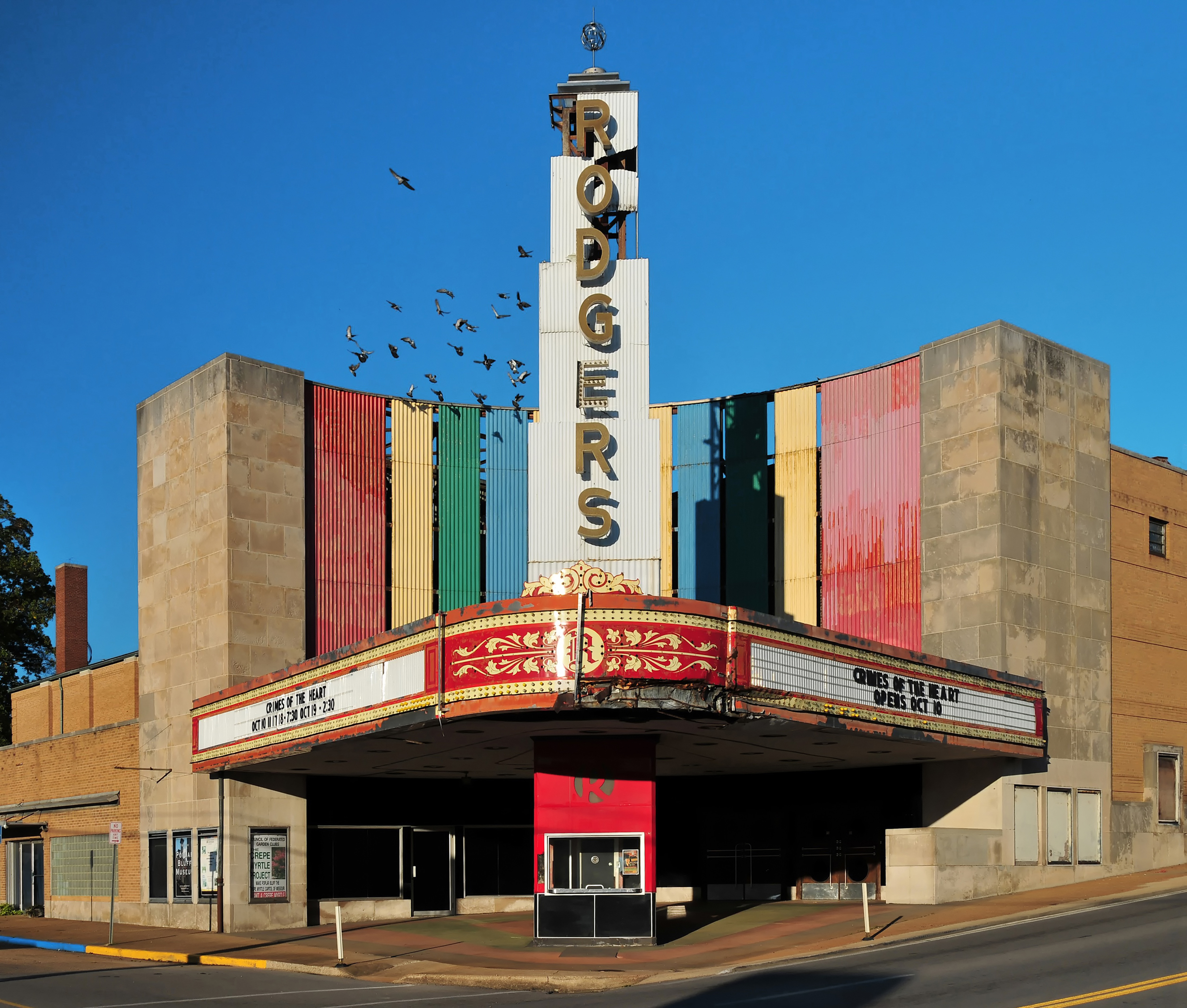 The Rodgers Theatre, 204-224 N. Broadway Street, Poplar Bluff, Missouri, United States was opened June 1, 1949, by I. W. Rodgers and is a great example of late Art Deco architecture. The Rodgers had 1160 red plush ‘Bodyform’ seats in its auditorium, 20 of which where equipped with hearing aid attachments, and the Rodgers had a cry room for small children and their mothers on the balcony, which had a soundproof glass window which allowed mothers to still view the movie. It was air-conditioned and heated, and was hailed as the finest theater between St. Louis and Memphis when it opened. Its front doors were made of solid walnut, and the circular shaped main lobby contained leather benches and a concession stand. Staircases led up to the balcony and down to the restrooms. In the ensuing years, the ticket booth was closed, and the theater was divided into two screens. The theater was sold by the Rodgers family to the Kerasotes chain in 1966, which continued to operate the theater until it was closed in May 14, 1998, due to the chain’s opening a new multiplex theater nearby on Highway 67 South. After closing the Rodgers, Kerasotes donated in Jan., 1999, the theater to Butler County. Since 2007, the Rodgers Theatre has hosted occasional live concerts. Butler County offices are now located in the former theater office space on the second floor.